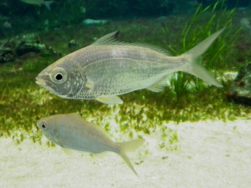 Gerres equulus Temminck et Schlegel,1844. at Umi-kirara(Sasebo, Nagasaki).